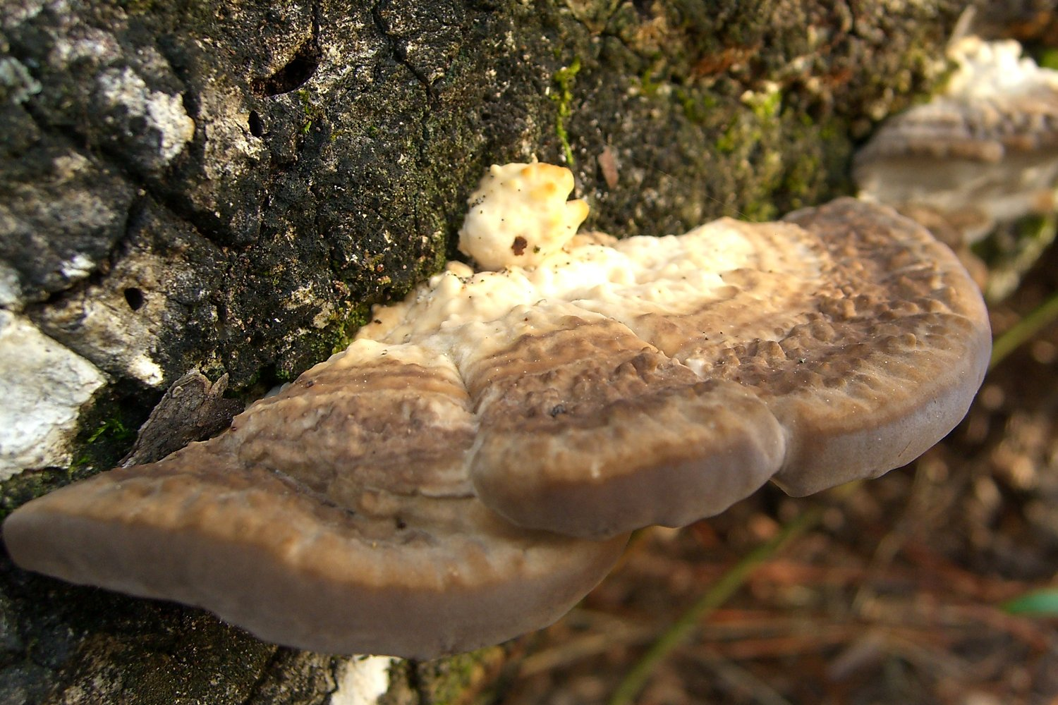 Scientific Name: Heterobasidion annosum (Fr.) Bref. Common Name: Annosus Root Rot Certainty: guess (notes) Location: Florida Panhandle; Appalachicola NF Date: 20070110